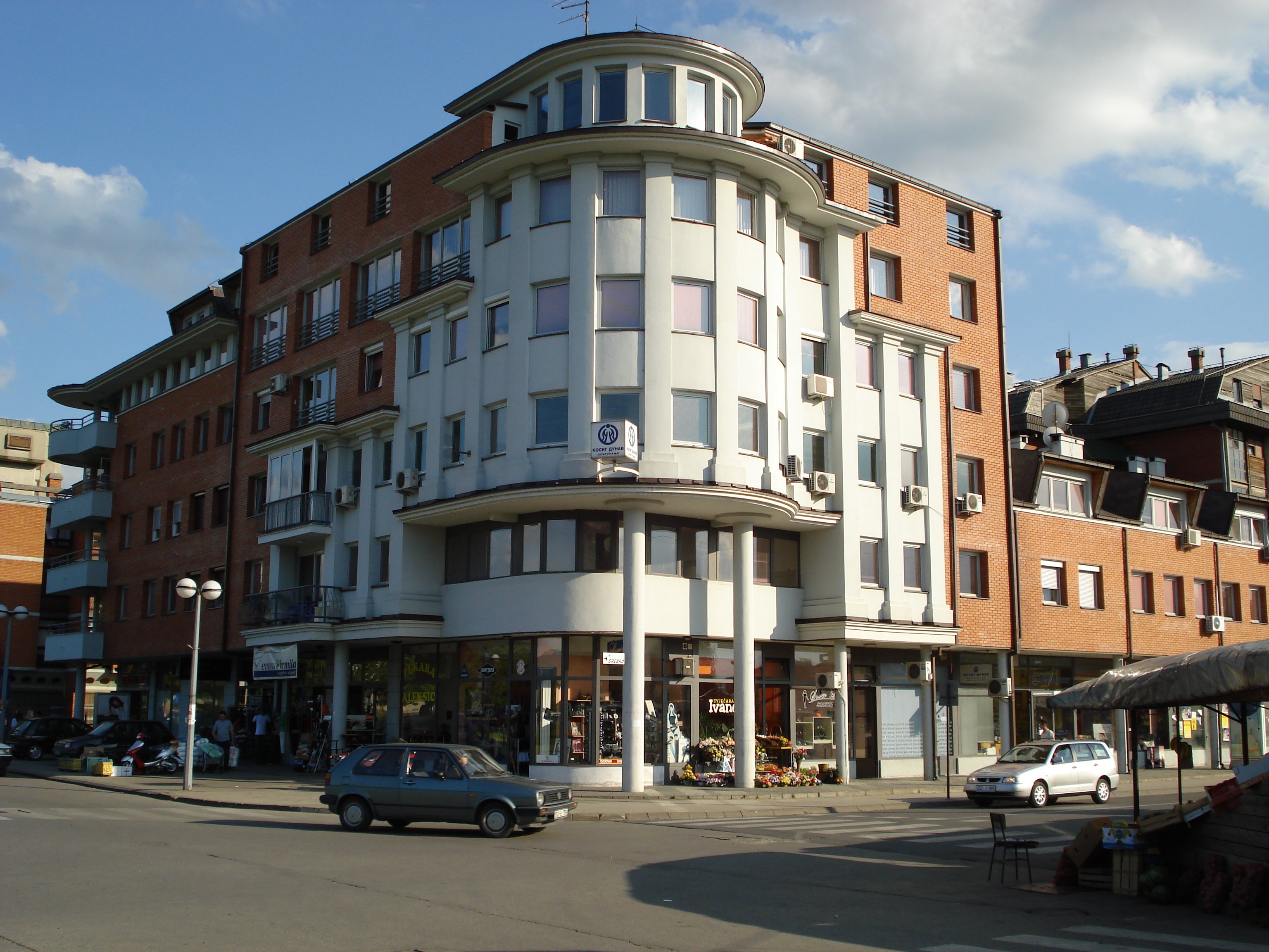 Building on the squer between the market place at Pecani and the urban park behind the photographer. This building was maded in the 90´s by the Mrakovica company.